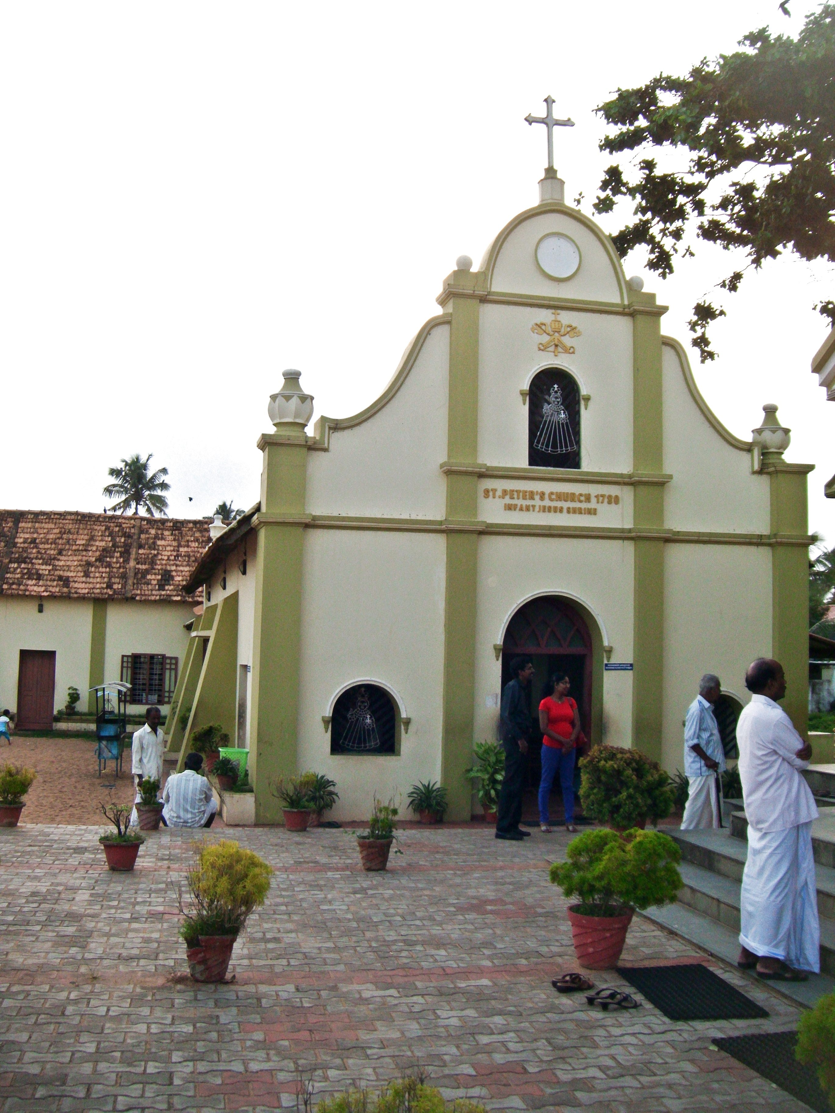 Kollam, Kerala, India. Old St. Peter`s Church, Kollam-Moothakara